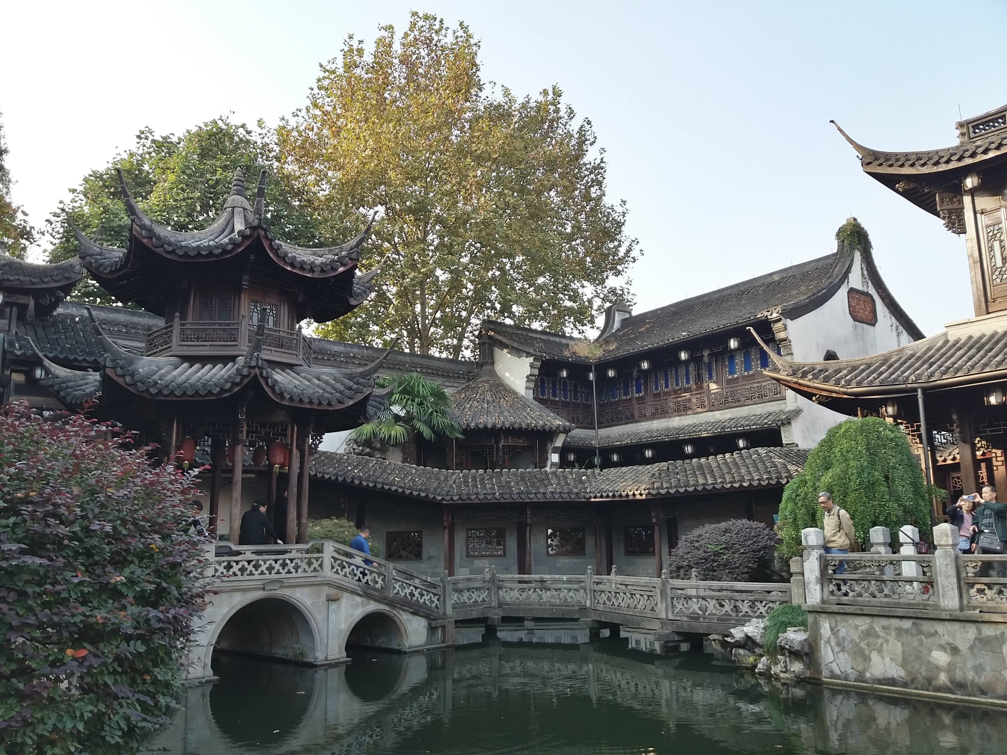 Former Residence of Hu Xueyan